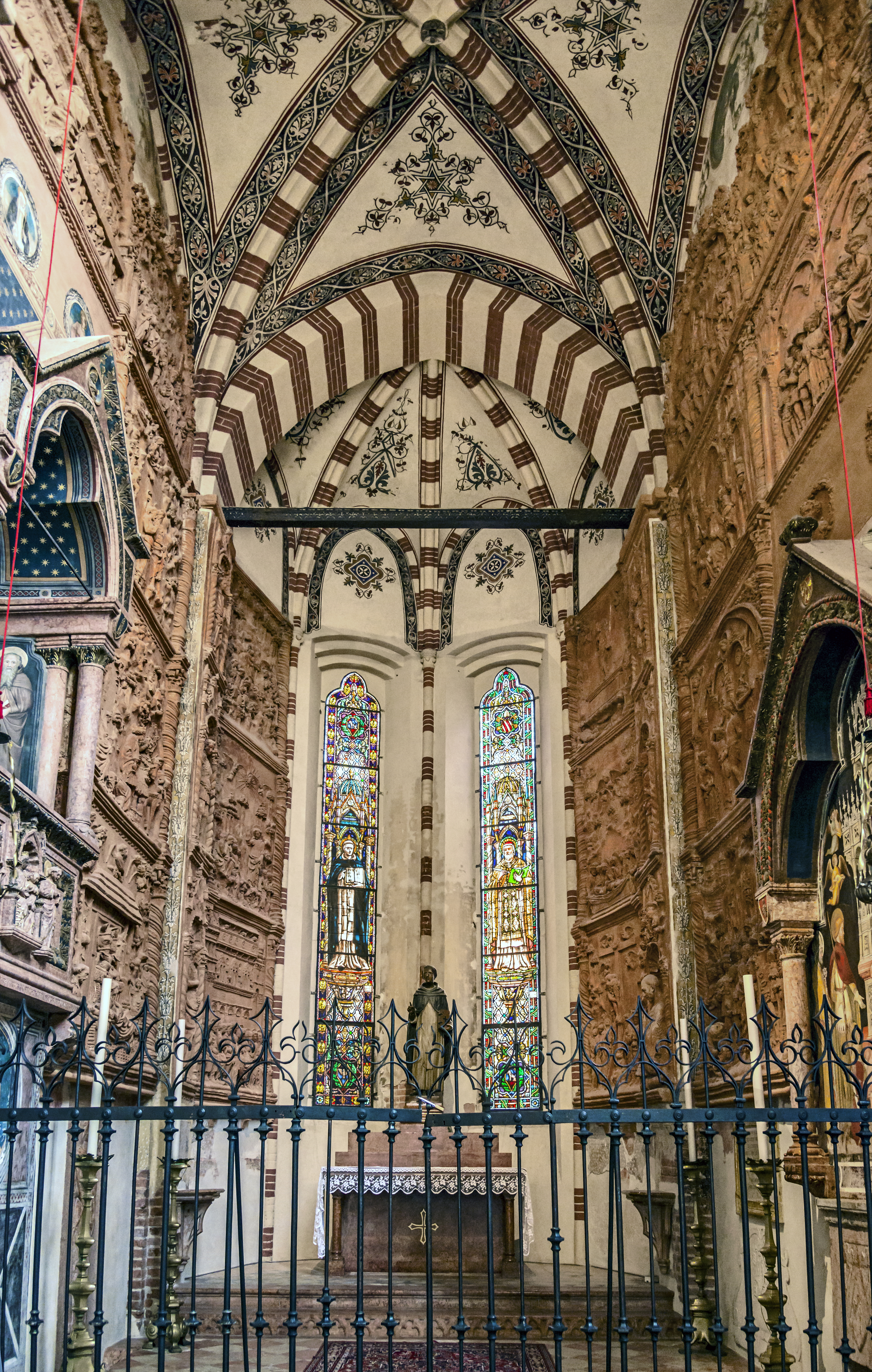 Basilica Santa Anastasia. The Pellegrini chapel, the walls are decorated with 24 pieces of terracotta representing scene from the life of Christ, made by Michele da Firenze in 1435.